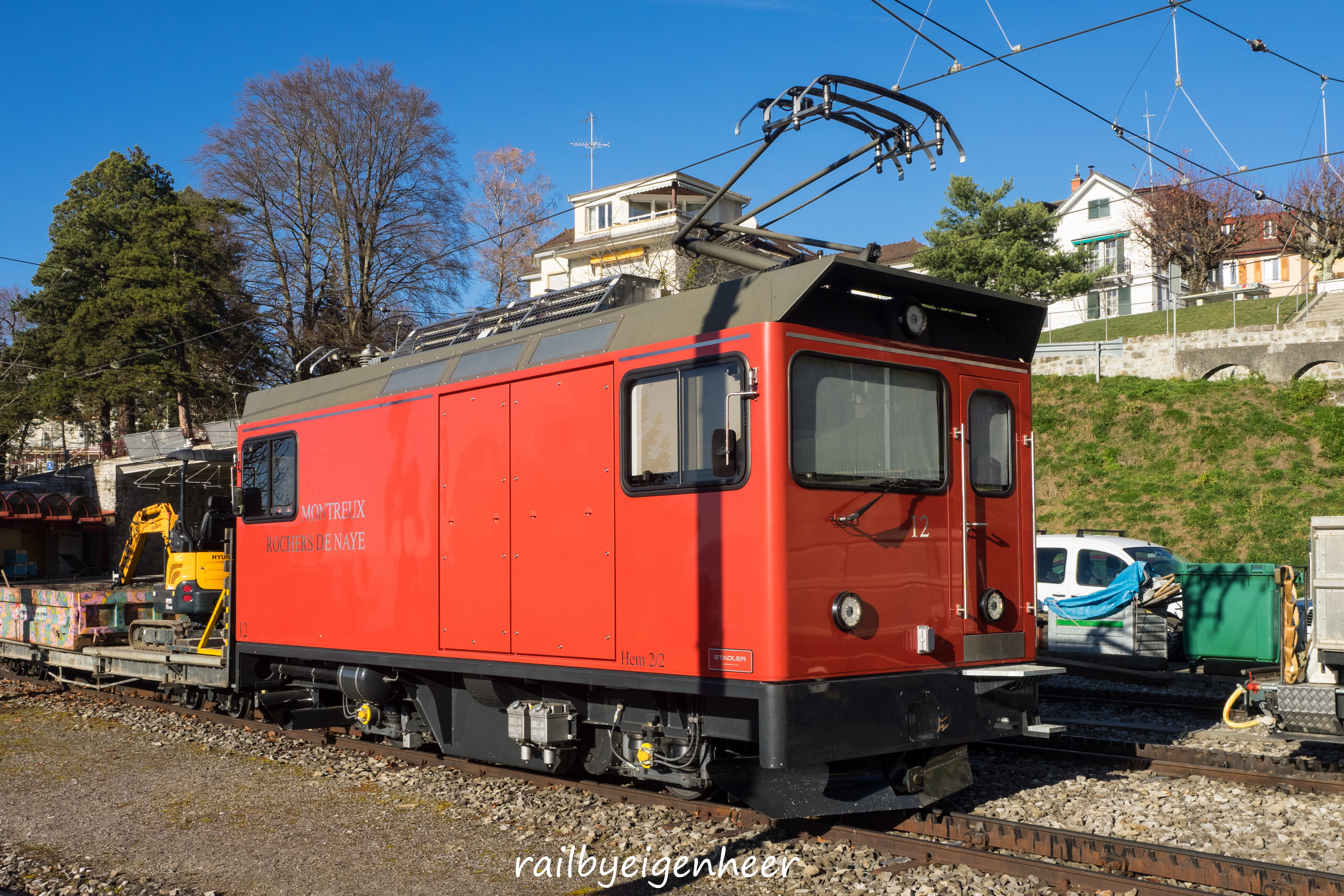 Glion 01.12.2016